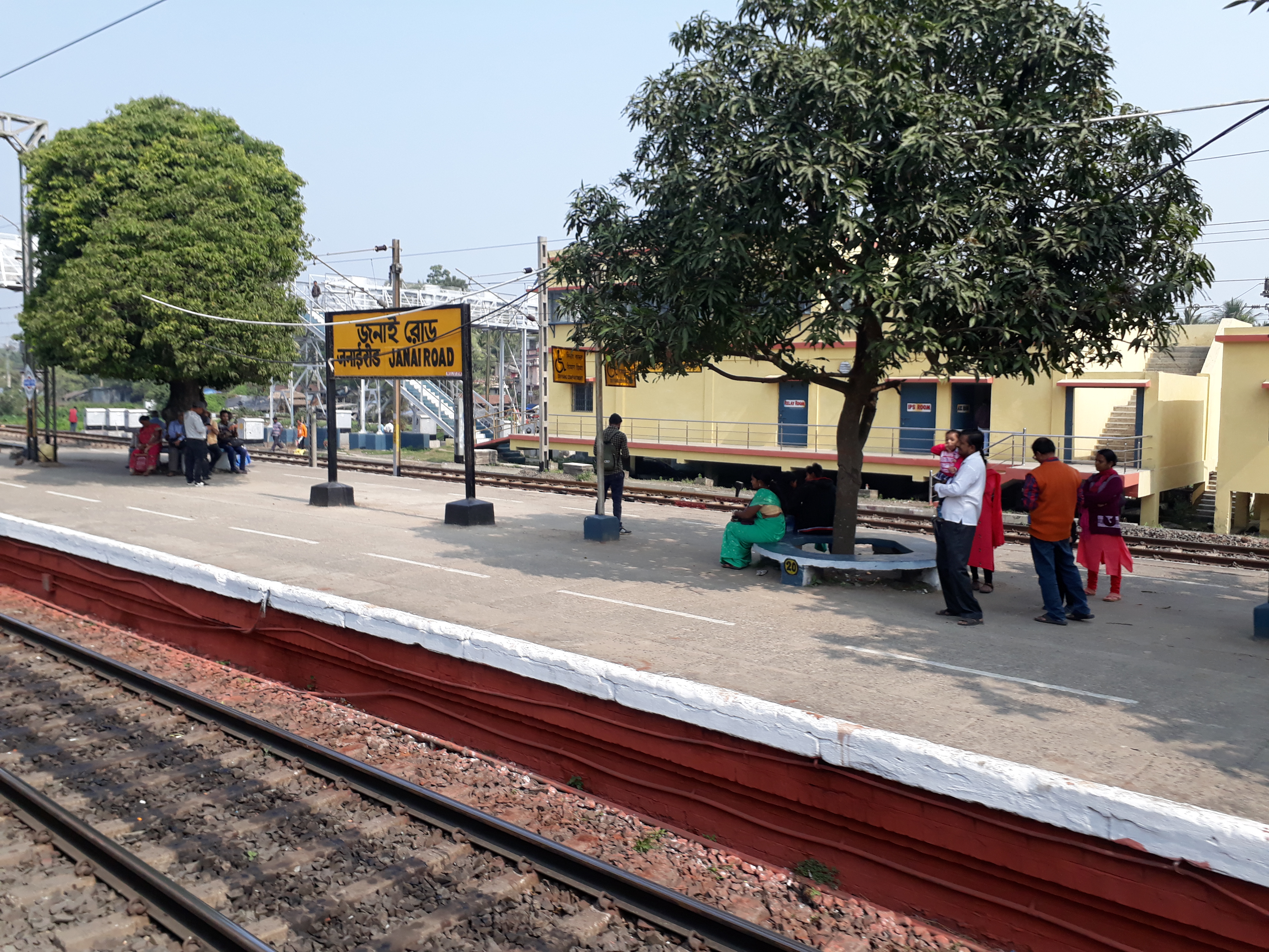 Janai Road railway station on Howrah Bardhaman cord line, Hooghly